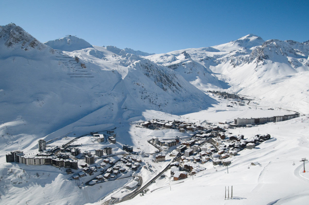 Tignes Val Claret, France. Taken from slopes of the Grande Motte mountain